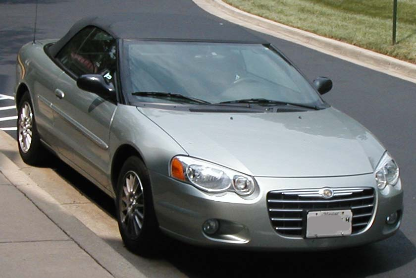 2004-2006 Chrysler Sebring convertible photographed in USA.